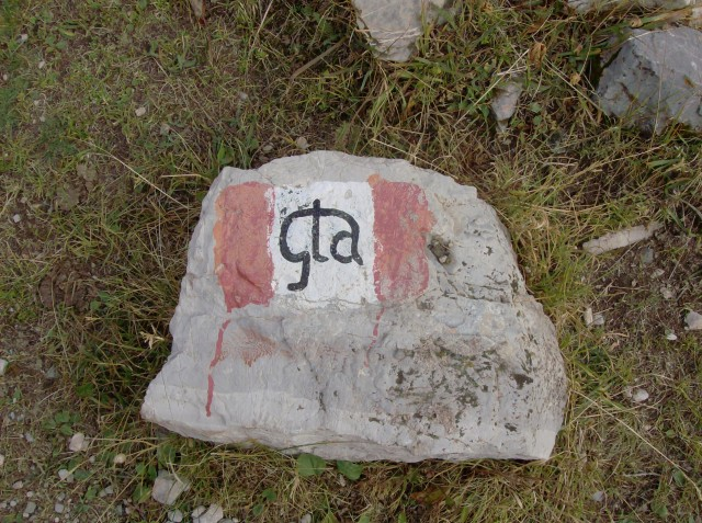 Path marker of the "Grande Traversata delle Alpi" trail